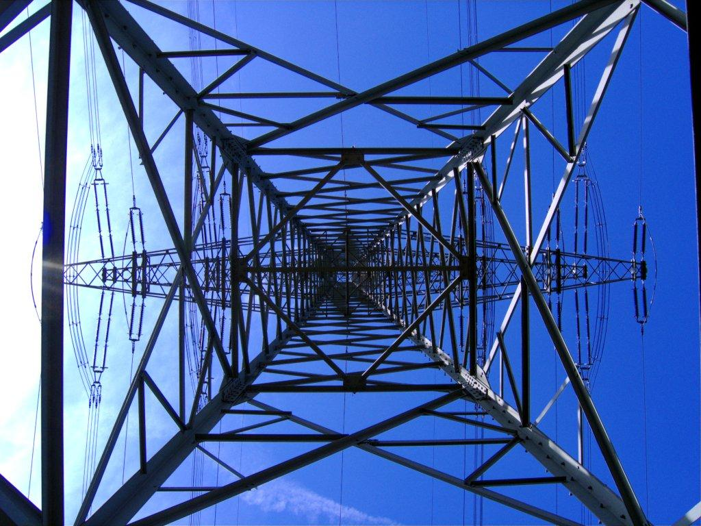 Electricity pylon. Location: Münster, NRW, Germany